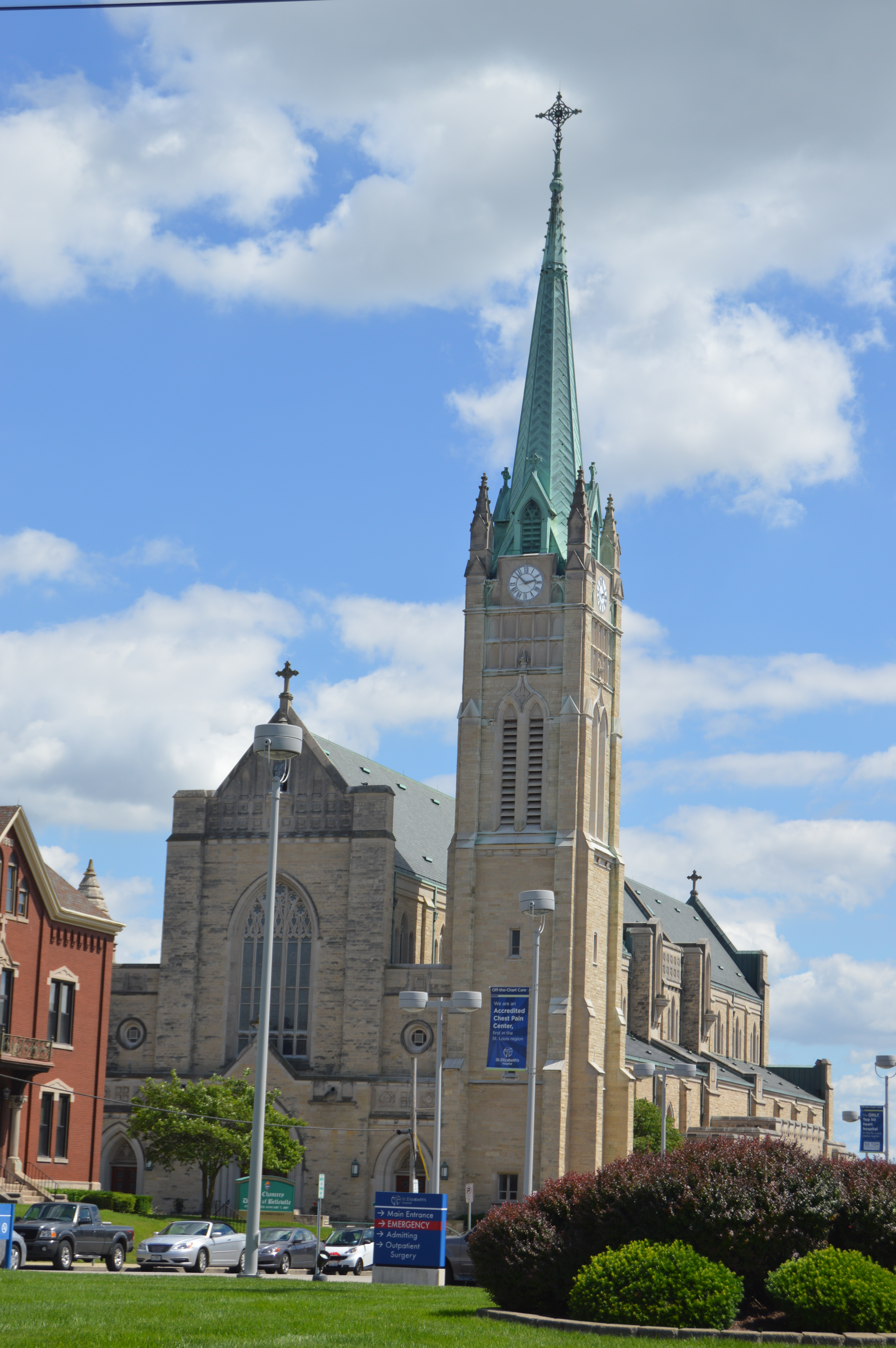 Distant view of the front of St. Peter's Cathedral, located at 200 W. Harrison Street in Belleville, Illinois, United States. It was built in 1866.